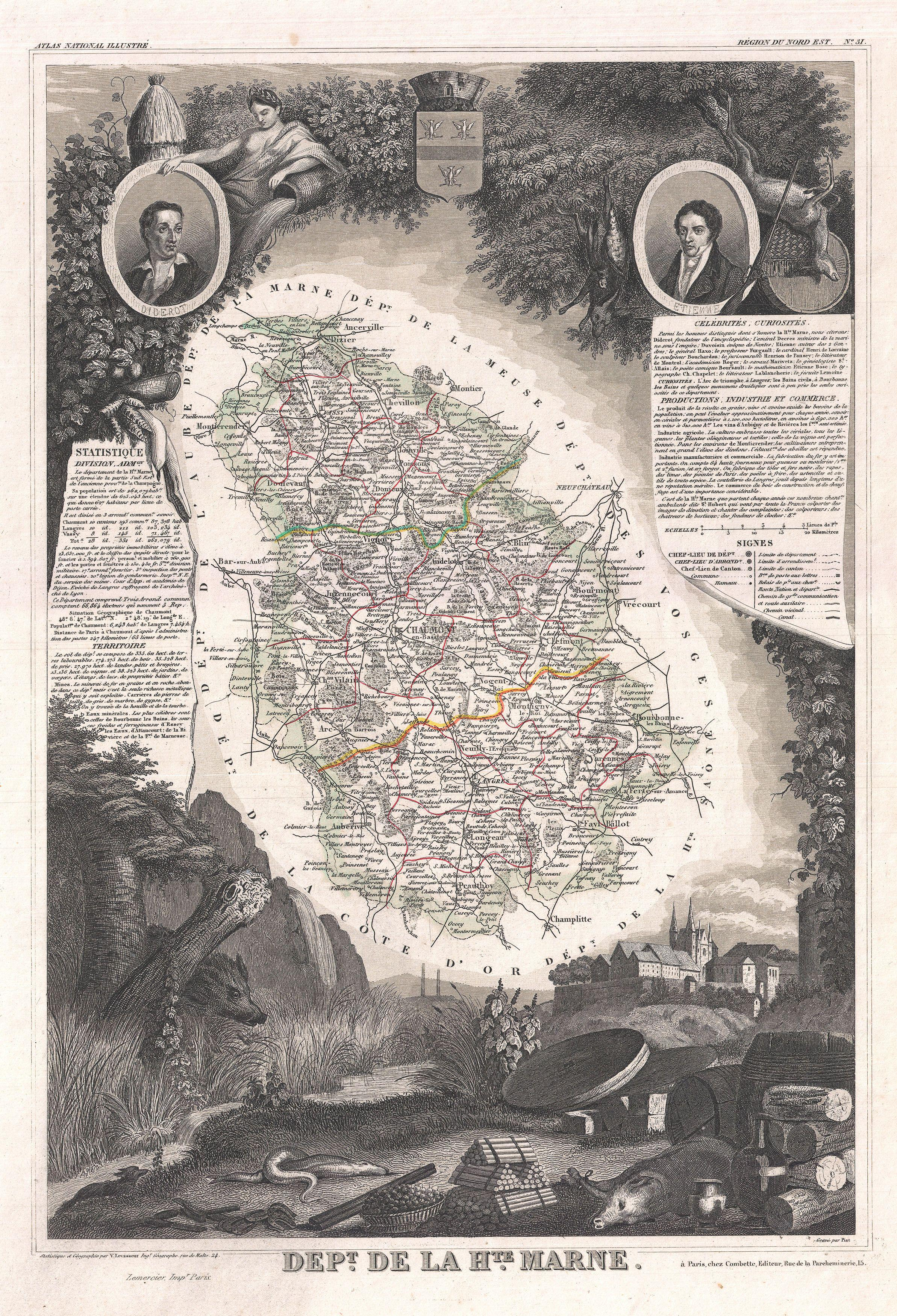 This is a fascinating 1852 map of the French department of Haute Marne, France. This department is part of the Champagne region, where the world-famous sparkling wine of the same name is produced. This area is known for a variety of wines from the Coiffy-le-Haut vineyard, champagne from Rizaucourt-Argentolles, and the local favorite, 'Choue' beer. It is also famous for its production of Langres, a salty cheese with a pronounced odor. The map proper is surrounded by elaborate decorative engravings designed to illustrate both the natural beauty and trade richness of the land. There is a short textual history of the regions depicted on both the left and right sides of the map. Published by V. Levasseur in the 1852 edition of his Atlas National de la France Illustree.